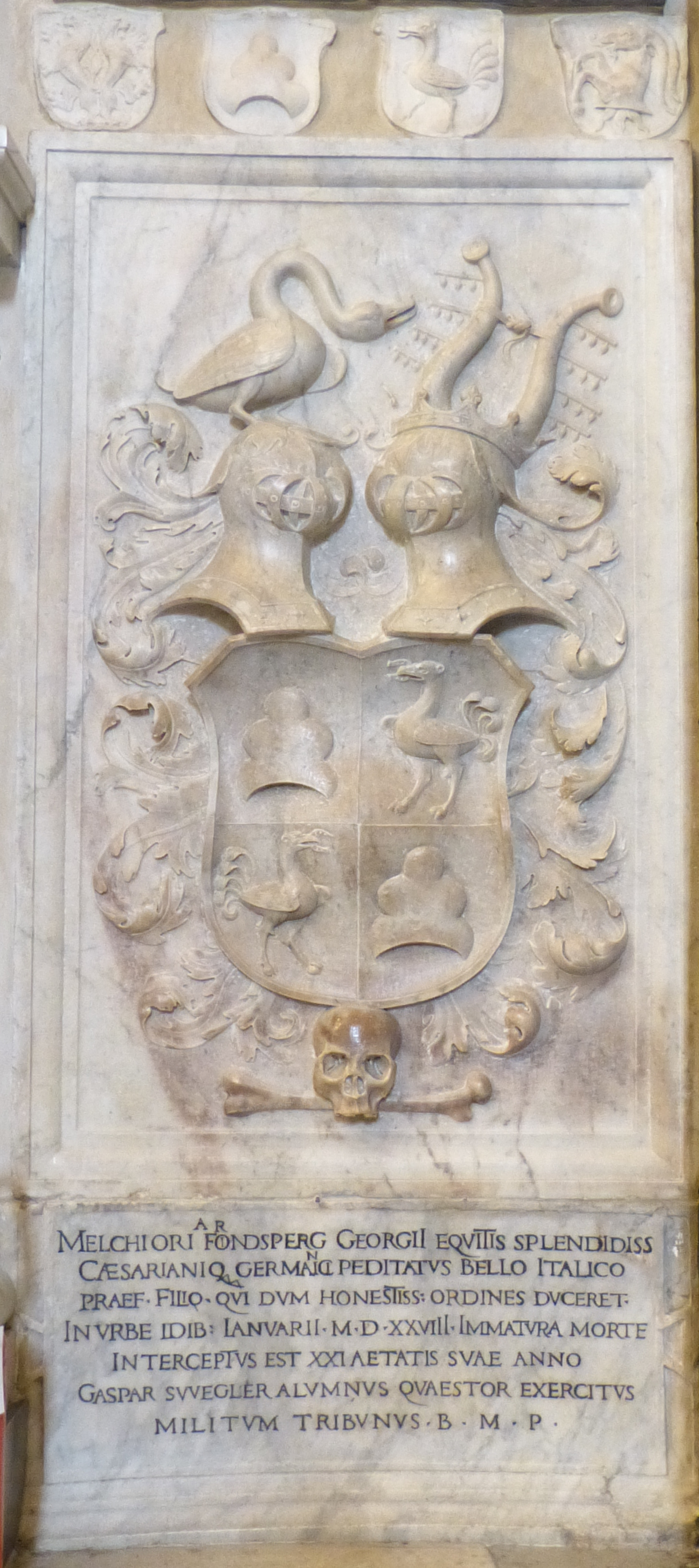 Epitaph of Melchier von Frundsberg, Santa Maria dell'Anima, Rome